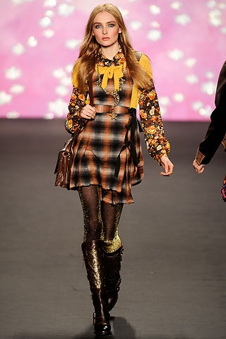 Snejana Onopka in a neo-1940's dress walks the runway at Anna Sui FW 2009.